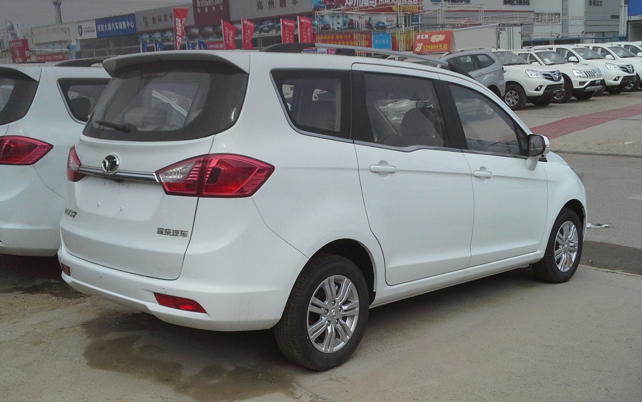 Enranger 737 photographed in Zhengzhou, Henan province, China.